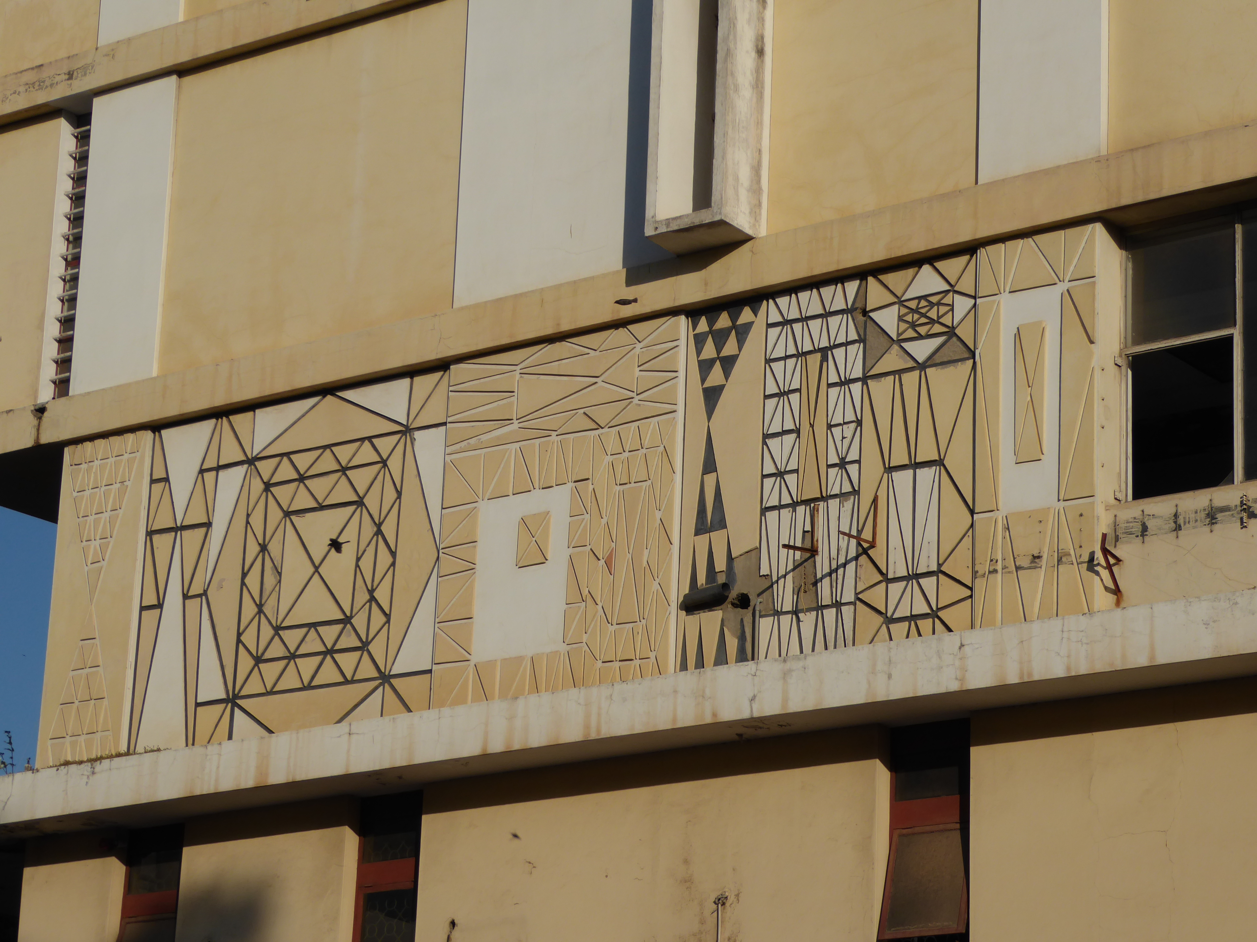 Detail of the Tonelli building in Maputo, Mozambique